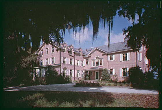 Bernard M. Baruch, Hobcaw Plantation, residence in (Georgetown, South Carolina)